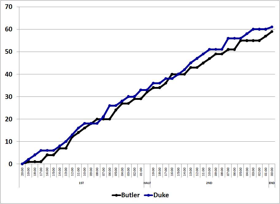 2010 NCAA Men's Division I Basketball Championship Game running score